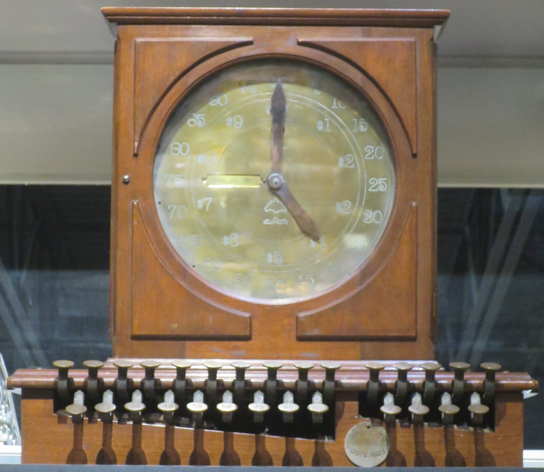 Reproduction of Ritty Dial, the first practical cash register, patented by James and Jacob Ritty in 1879, Carillon Historical Park